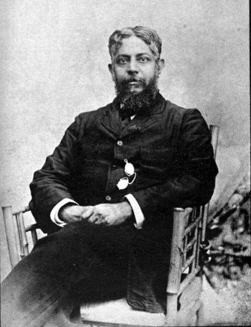 Image of Ananda Mohan Bose